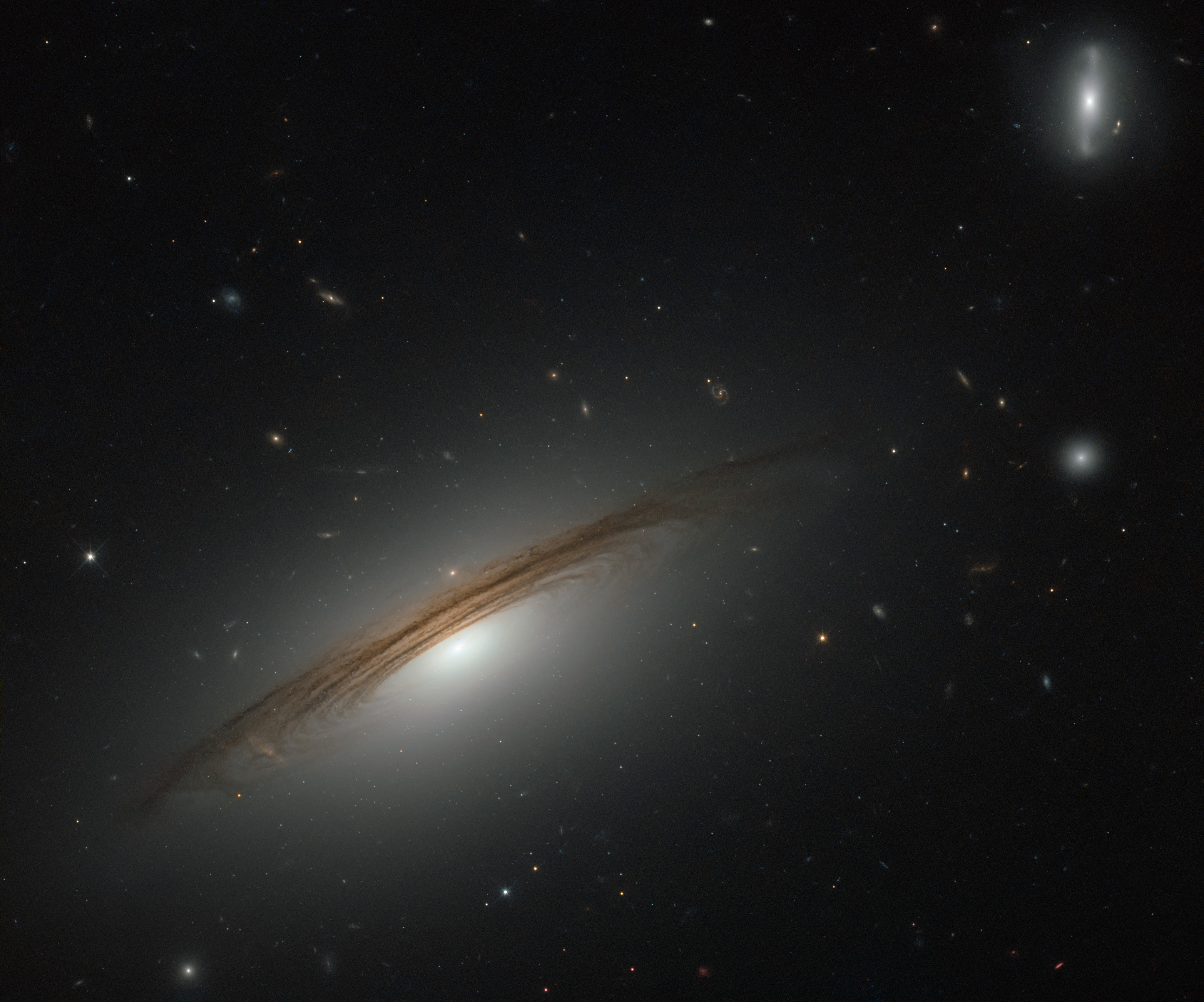 This NASA/ESA Hubble Space Telescope image showcases the remarkable galaxy UGC 12591. Classified as an S0/Sa galaxy, UGC 12591 sits somewhere between a lenticular and a spiral. It lies just under 400 million light-years away from us in the westernmost region of the Pisces–Perseus Supercluster, a long chain of galaxy clusters that stretches out for 250 million light-years — one of the largest known structures in the cosmos. The galaxy itself is also extraordinary: it is incredibly massive. The galaxy and its halo together contain several hundred billion times the mass of the Sun; four times the mass of the Milky Way. It also whirls round extremely quickly, rotating at speeds of up to 1.8 million kilometres per hour! Observations with Hubble are helping astronomers to understand the mass of UGC 1259, and to determine whether the galaxy simply formed and grew slowly over time, or whether it might have grown unusually massive by colliding and merging with another large galaxy at some point in its past.